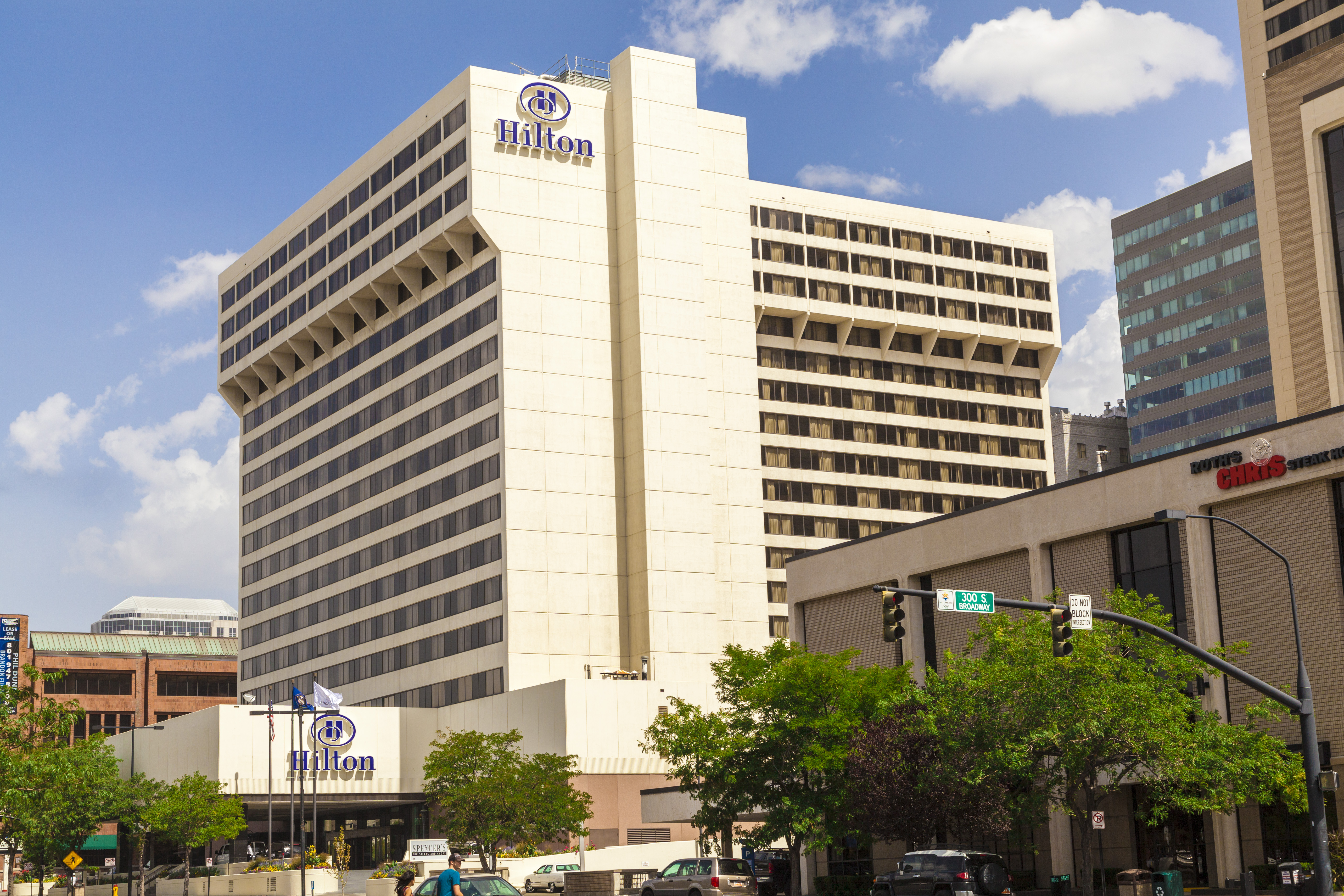 Hilton Hotel (255 W. Temple Temple) in Salt Lake City, Utah, USA.